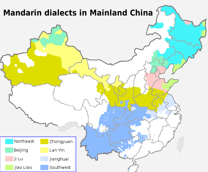 Translation of Chinese map of Mandarin dialect groups, based on Language Atlas of China, by Stephen Adolphe Wurm, Rong Li, Theo Baumann and Mei W. Lee, Longman, 1987, ISBN 978-962-359-085-3.